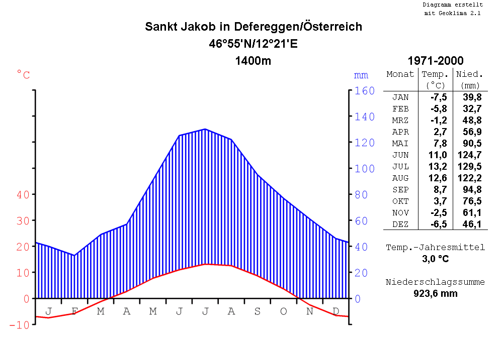 climate chart of St. Jakob in Defereggen, Austria, for the period of time from 1971 to 2000, in the format by Walter and Lieth, metric, °Celsius and millimeters, chart made with Geoklima 2.1, label in German